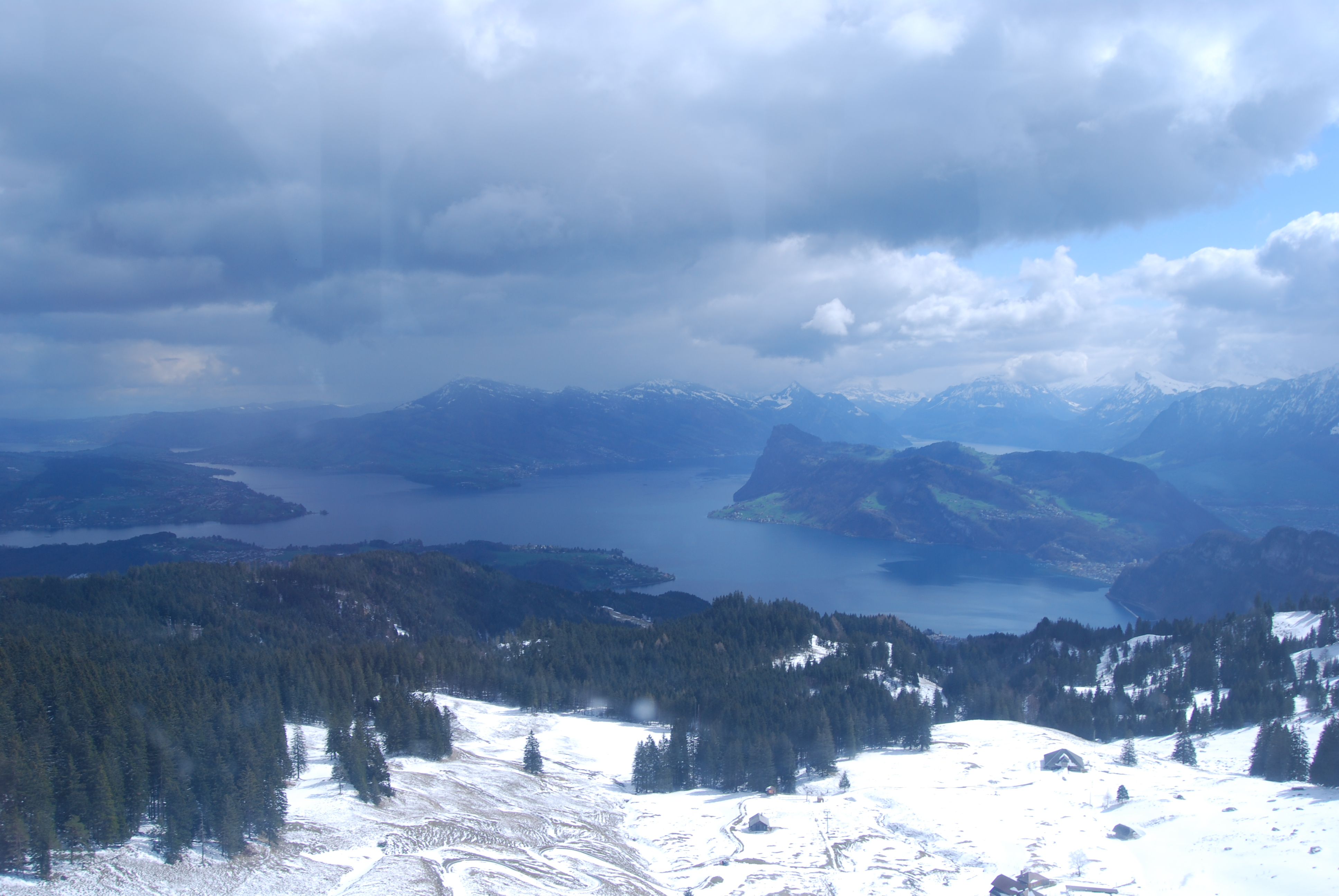 Panoramic view from Pilatus cable way to the Lake Lucerne, canton of Luzern, Switzerland.